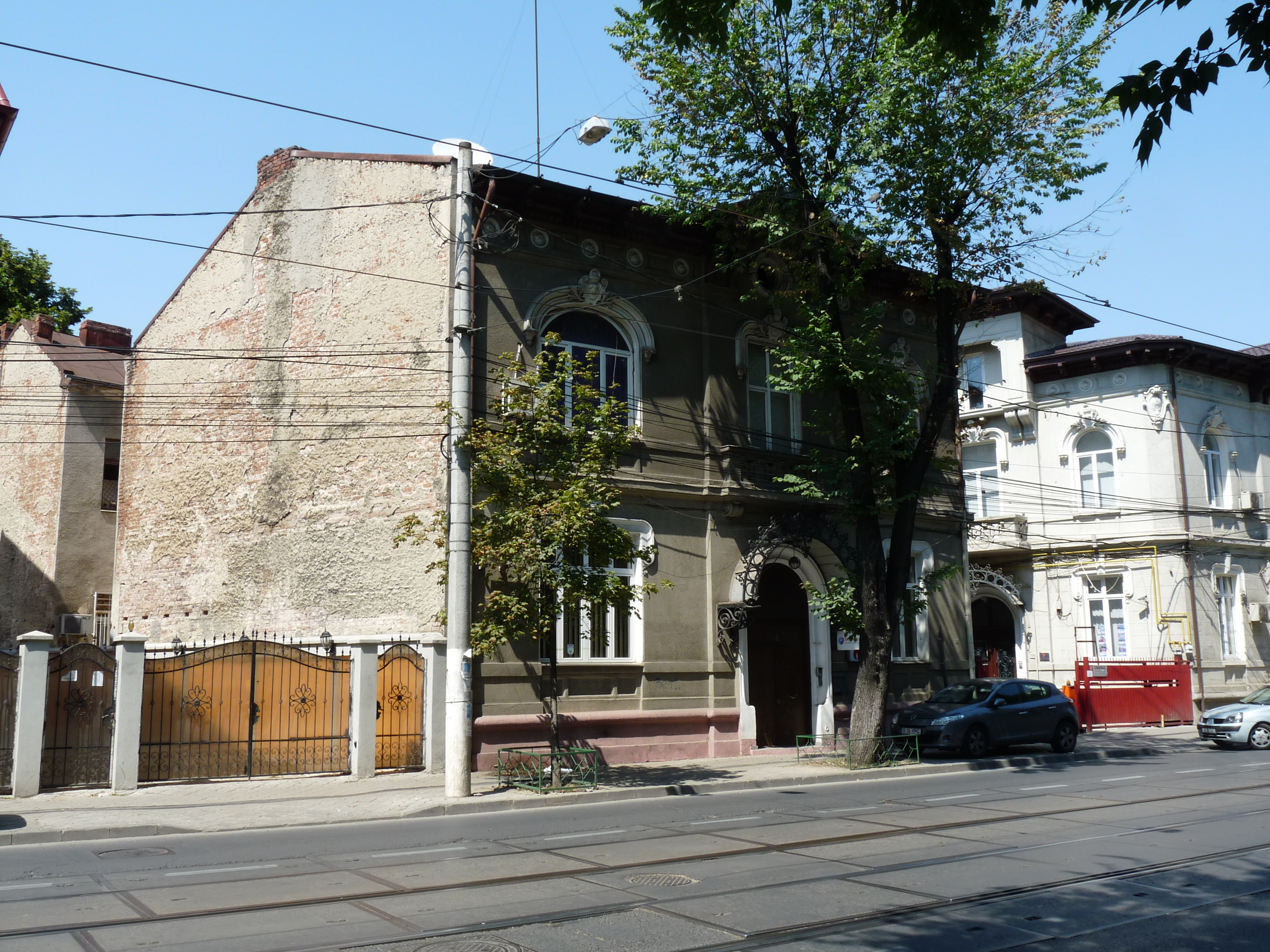 Historic building in Bucharest, Romania, on Regina Maria boulevard 34Română: Clădire istorică din Bucureşti, România, pe bulevardul Regina Maria 34